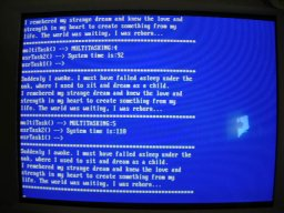 Real VMX terminal screenshot